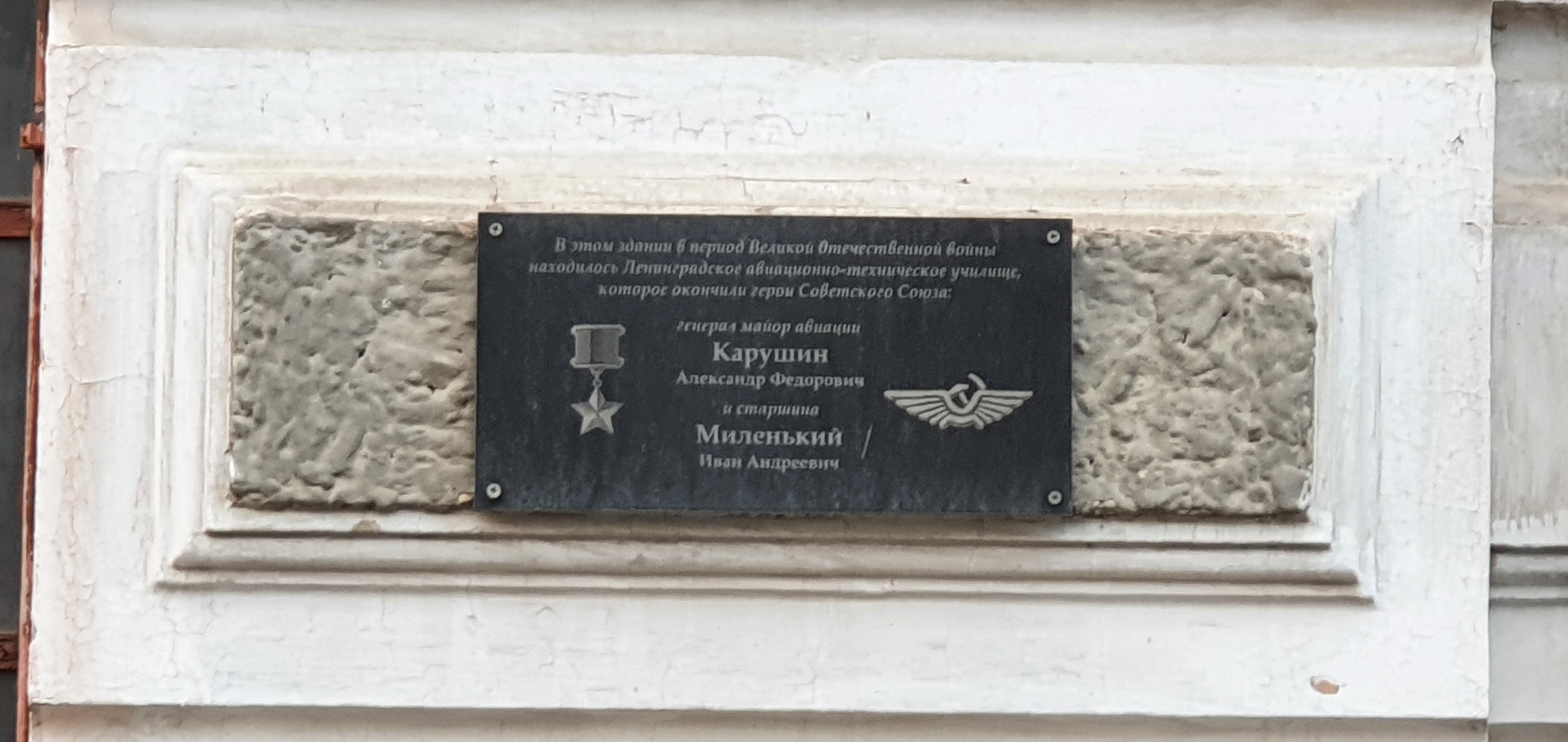 Yaushev trade passage in Troitsk, Chelyabinsk oblast. Memorial Plaque with Soviet Union Heroes